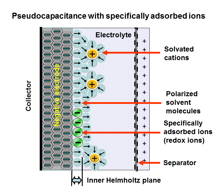 simplified principle of charge storage in pseudocapacitors together with Helmholtz double layer